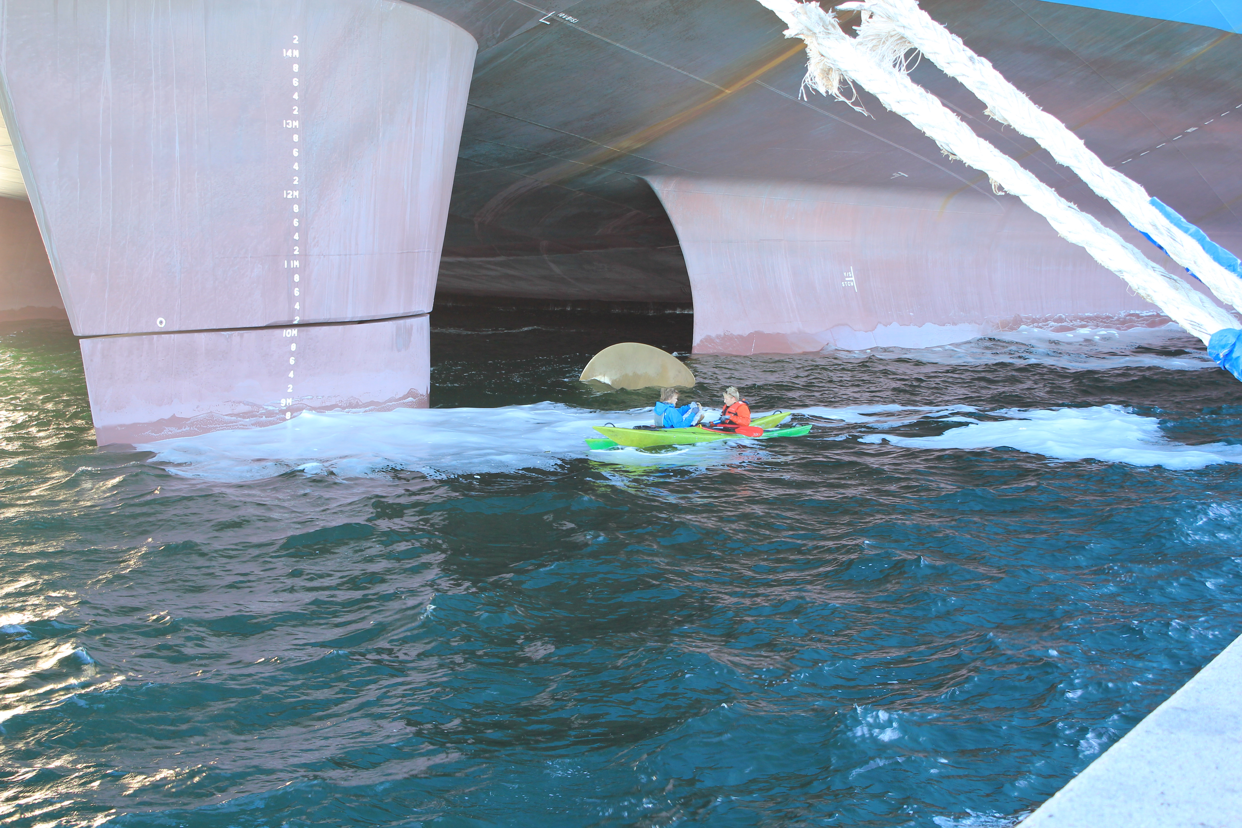 Triple-E container ship Majestic Maersk at Copenhagen's Langelinie, bow with twin-skeg hull, kayakers near propeller